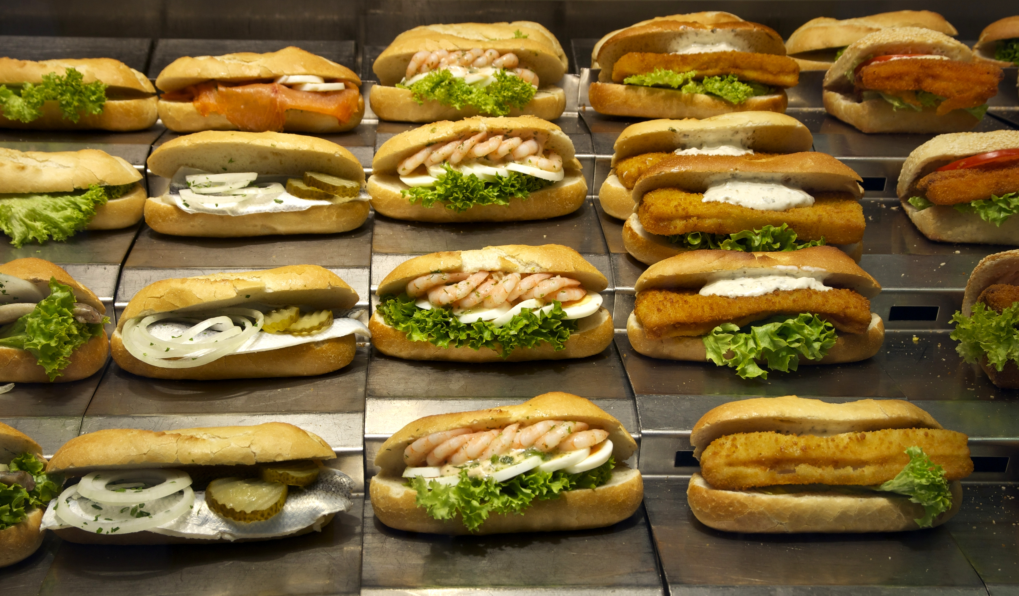 Seafood sandwiches in Vienna, Austria, including shrimp, lox, pickled herring, and fried fish with remoulade.